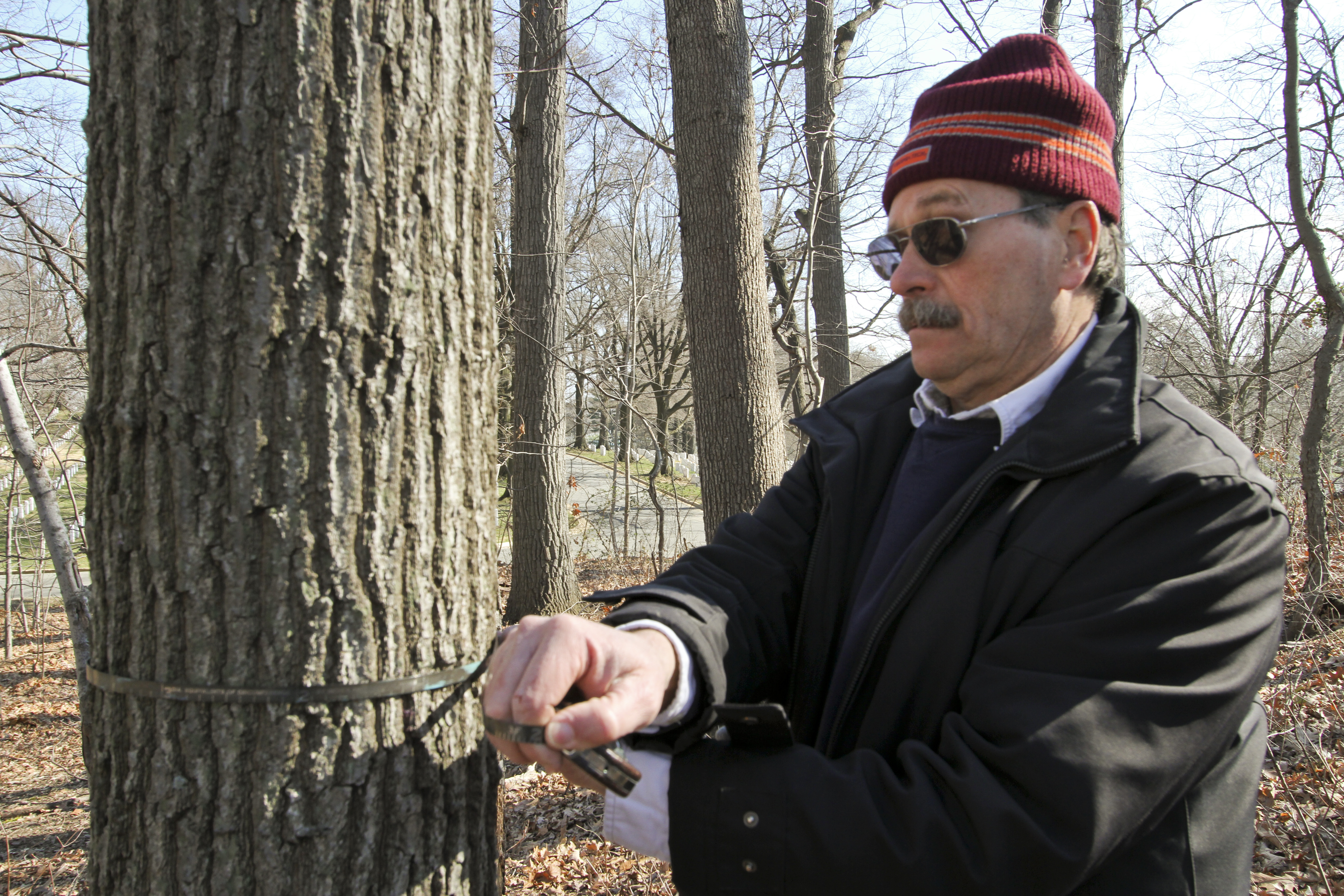 Paul Carter, horticulture expert at the Norfolk Division of the US Army Corps of Engineers, measures the circumference of a tree in the Millennium Project site at Arlington National Cemtery in Arlington County, Virginia, in the United States on February 6, 2013. The Millennium Project will clear 27 acres of property on the cemtery grounds, and add an additional 30,000 burial and inurnment sites. Horticultural experts estimated the age of all trees in the Millennium Project site based on height, trunk circumference, and other factors. Many of the oldest, non-invasive trees will be retained. Experts use the data collected from the first few trees cut down as part of the project to confirm these estimates of age.